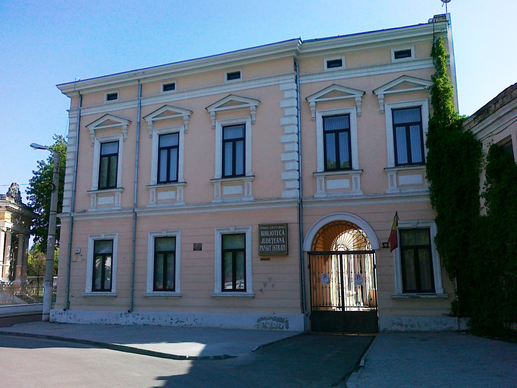 The Panait Istrai library in the city of Braila, Romania